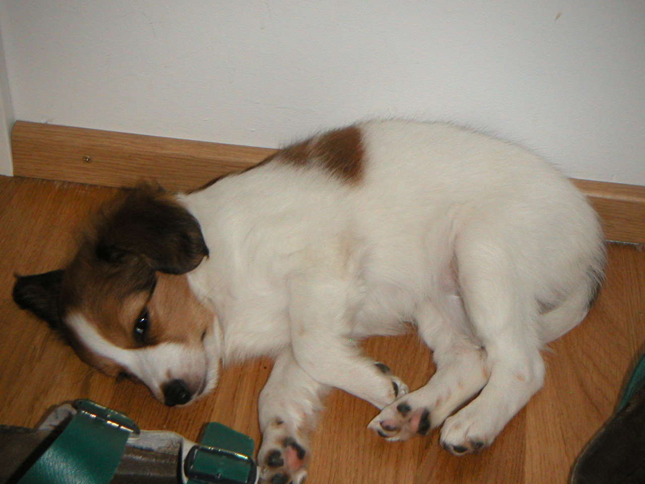 Kooikerhondje Puppy